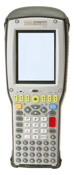 Psion Teklogix 7535 G2 Hand-Held Computer